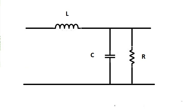 Passive biquad low pass filter